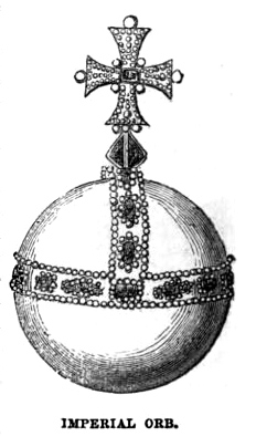 Crown Jewels / The King´s Orb